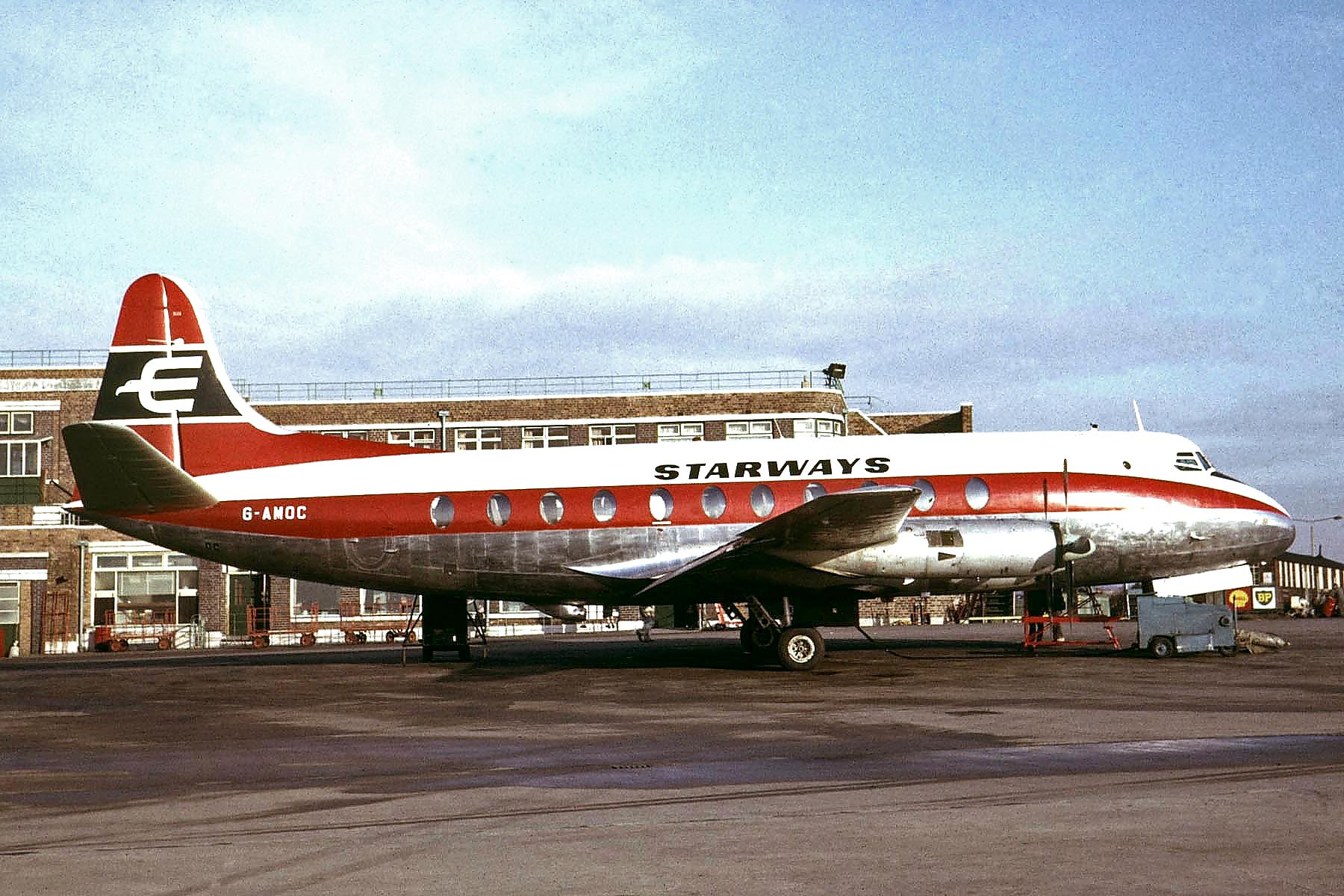 British Eagle took over Starways services from Liverpool on 01-Jan-64. However, initially they were unable to operate using the British Eagle name or flight numbers because the licences were held under the Starways name. So for about 3 months, until the route licences were transferred, two Viscounts operated in British Eagle c/scheme with Starways titles.